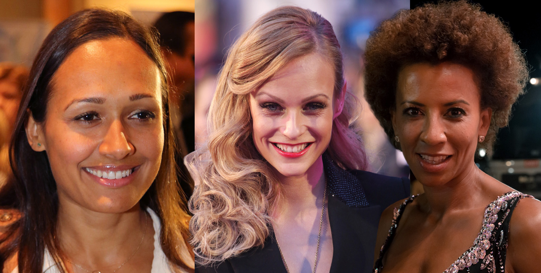 The hosts of the Eurovision Song Contest 2015. From left: Alice Tumler, Mirjam Weichselbraun and Arabella Kiesbauer.